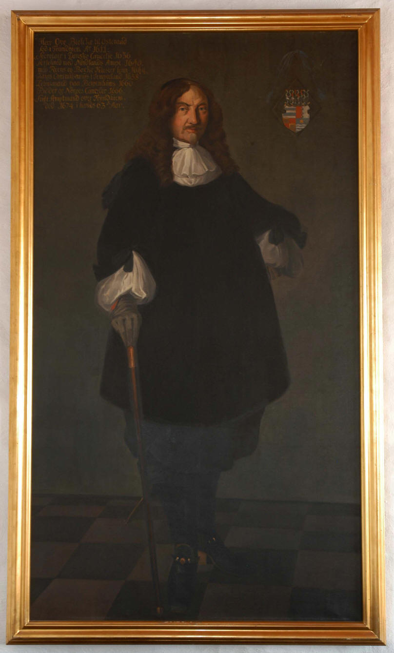 Ove Bjelke 1611-1674, norwegian chancellor and lord to the manor of Austrått